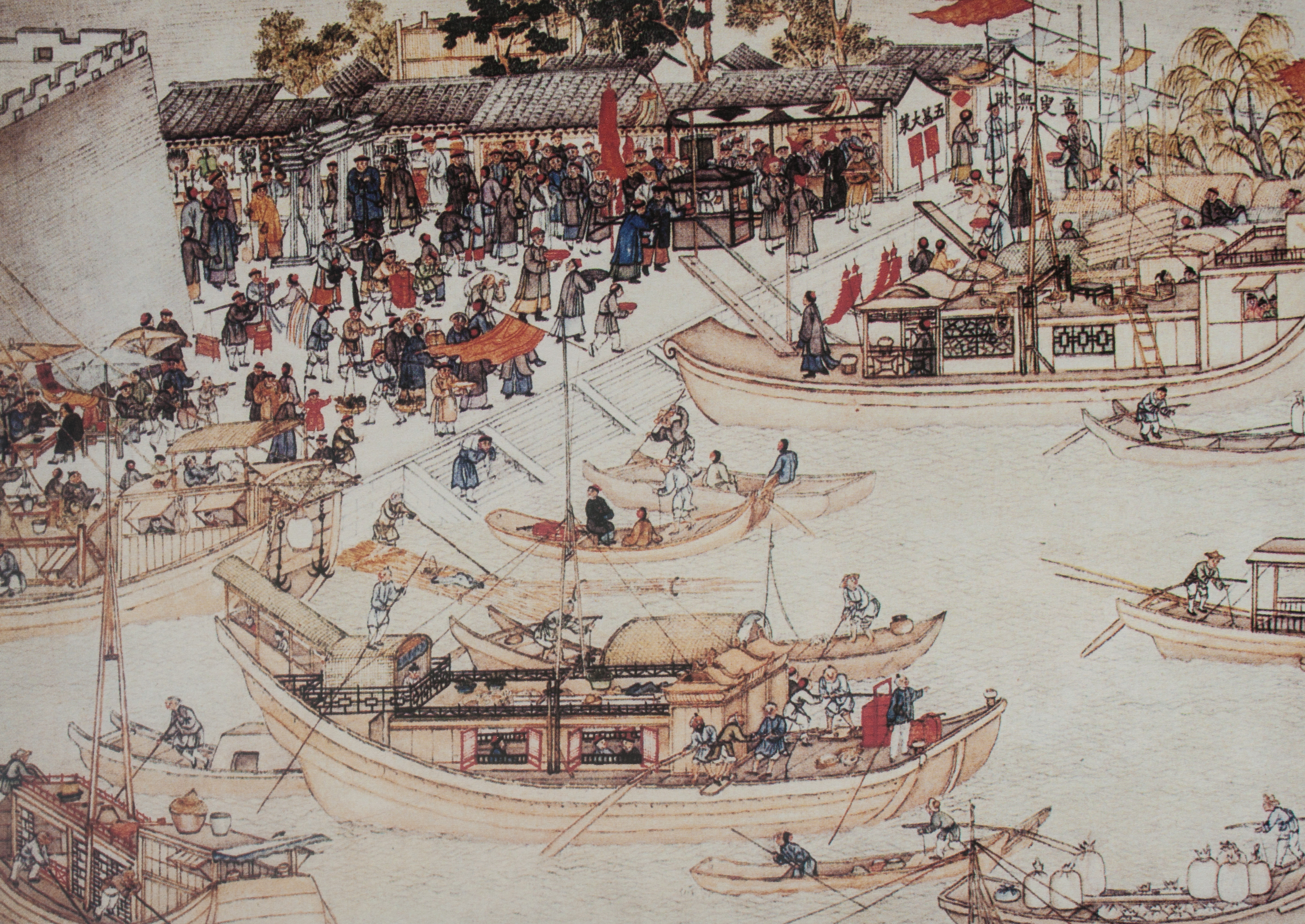 Detail of scroll about Suzhou made on the order of Emperor Qianlong